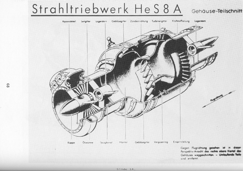 Heinkel e S-8A